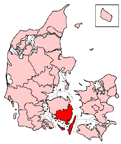 Map of Svendborg County 1793-1970